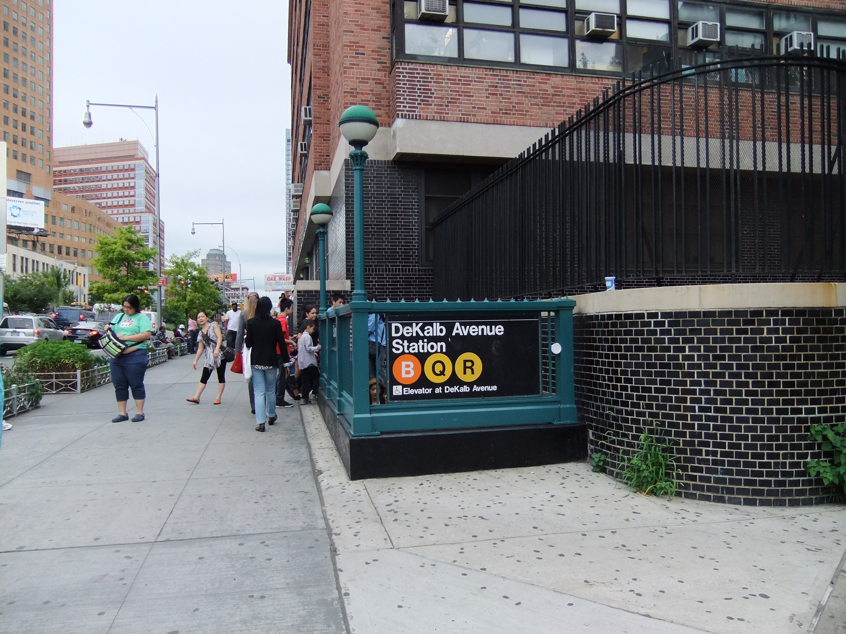 Entrance from Fleet Street/Flatbush Avenue Extension to the DeKalb Avenue (4th Avenue/Brighton) station in Brooklyn, NY.